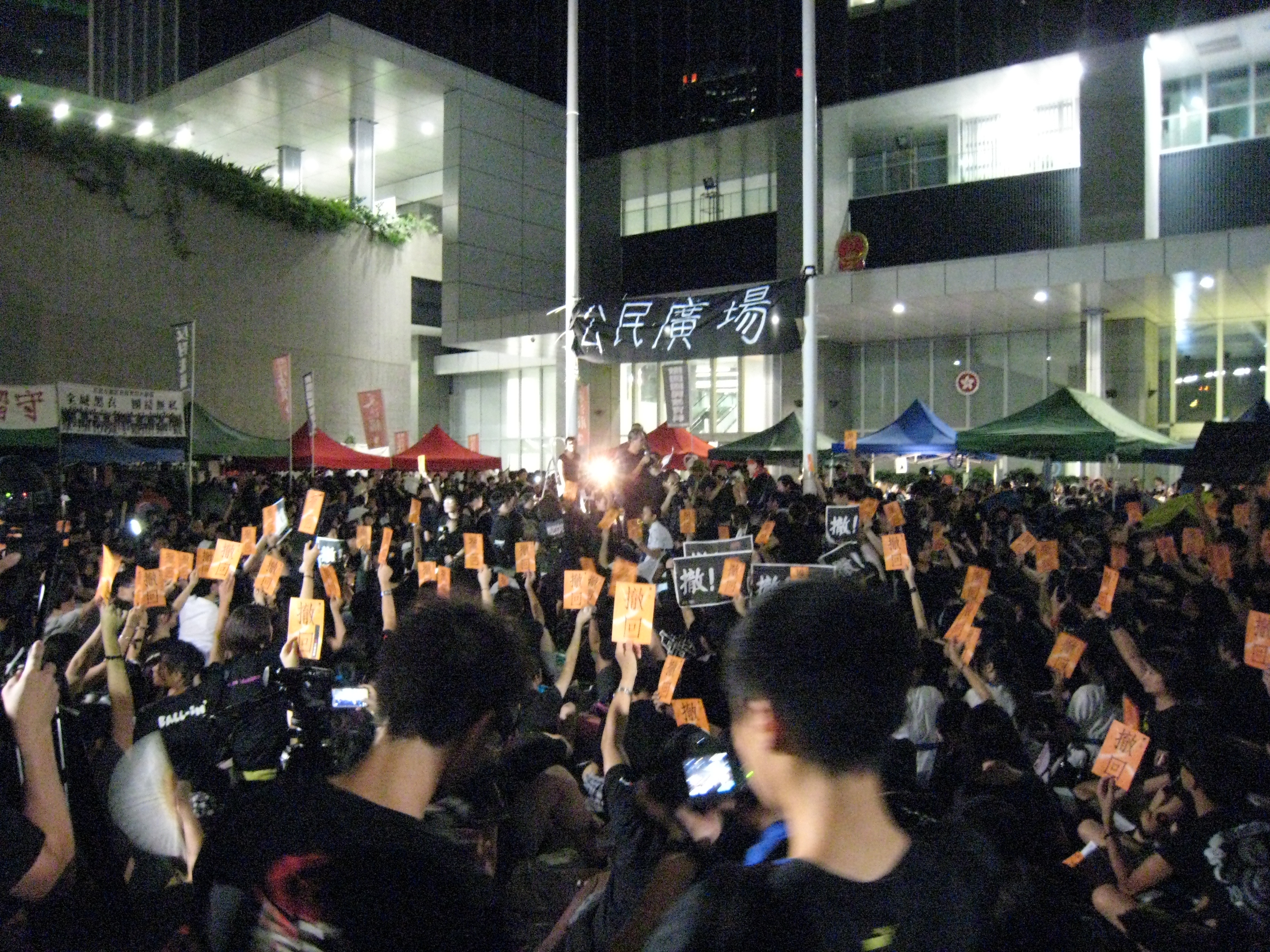 Hong Kong student group Scholarism and other people protest against national education in front of the government headquarters at Tamar in Hong Kong. (September 07, 2012)